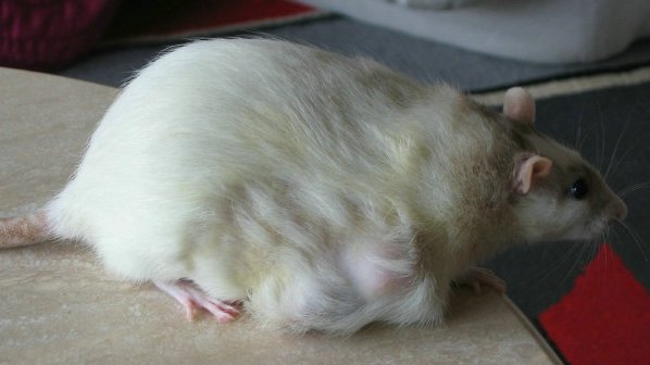 This rat has multiple malign tumour of the mammarian gland. The biggest tumour already was removed surgically. At the age of 1 year and 10 months, this pet rat was put to sleep because of big eruptions with necrosis of the tumours. Pet rat called Amani Abricot ° 21/07/04 - + 26/05/06 Photo: Corry Note